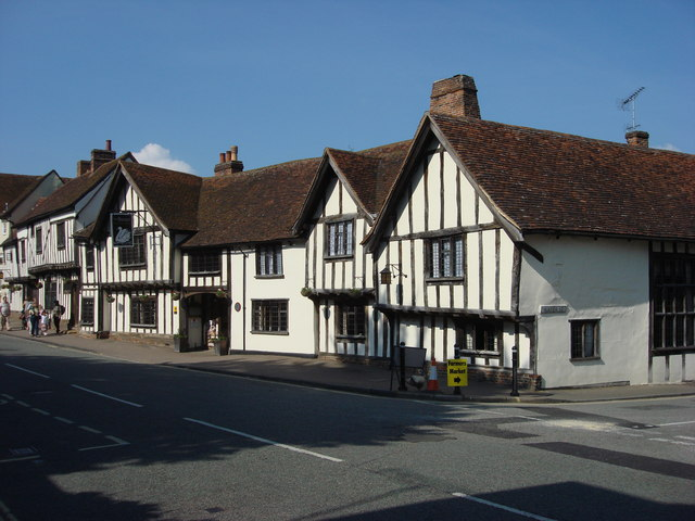 The former Old Wool Hall in Lavenham, Suffolk, England. Now known as the Swan Hotel, it is a Grade I listed building.